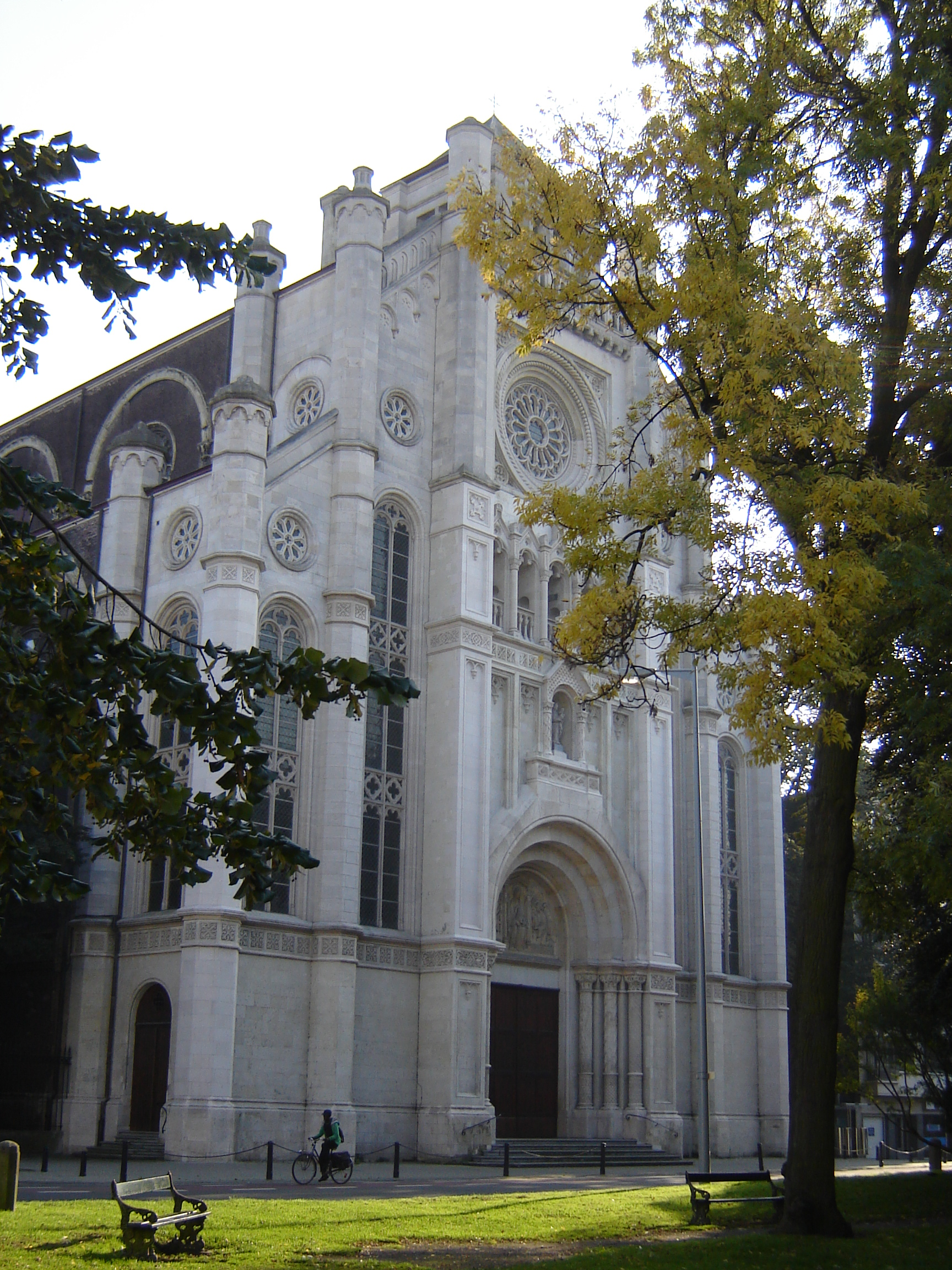 Church of Saint Anne in Gent. Gent, East Flanders, Belgium.